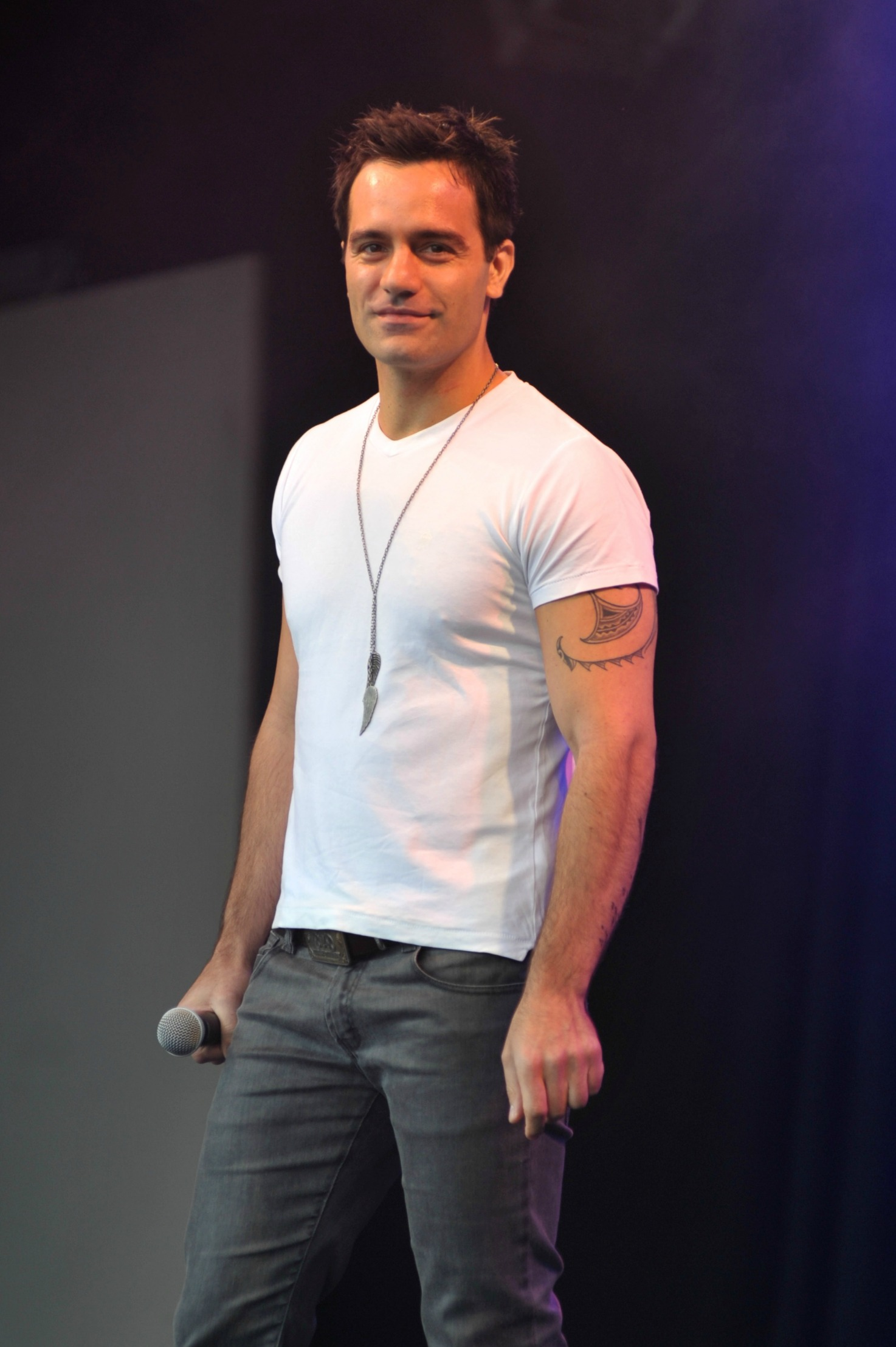 Ramin Karimloo at West End Live 2011 in Trafalgar Square, London, England, United Kingdom. This photo was taken on June 18, 2011 by using a Nikon D700.